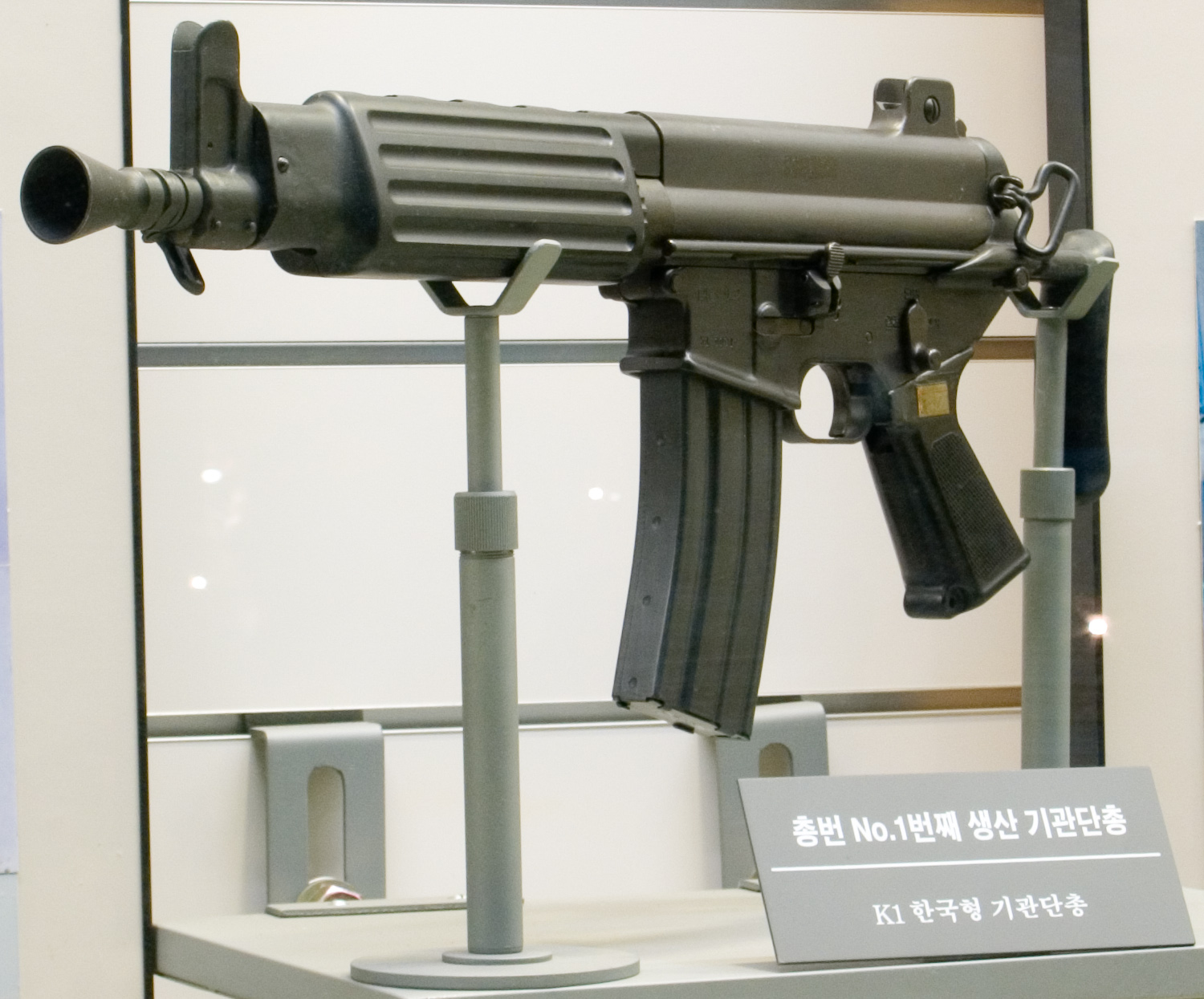 South Korean Daewoo K1 carbine No.1 at the War Memorial of Korea